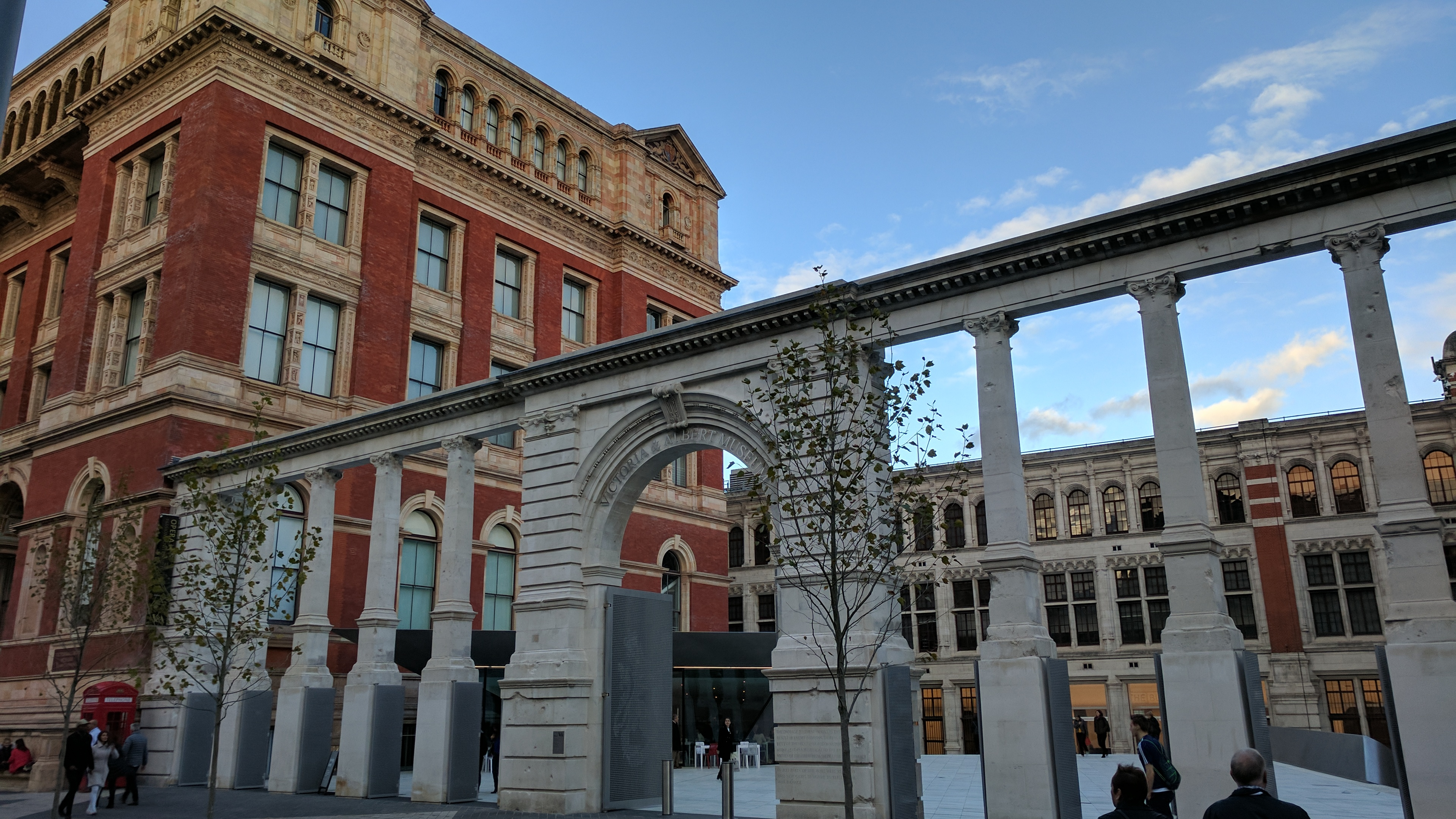 K2 Telephone Kiosk Outside The Victoria And Albert Museum Wikidata has entry Q27083160 with data related to this item.